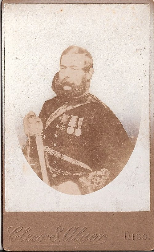 Carte de visite of Andrew Henry VC